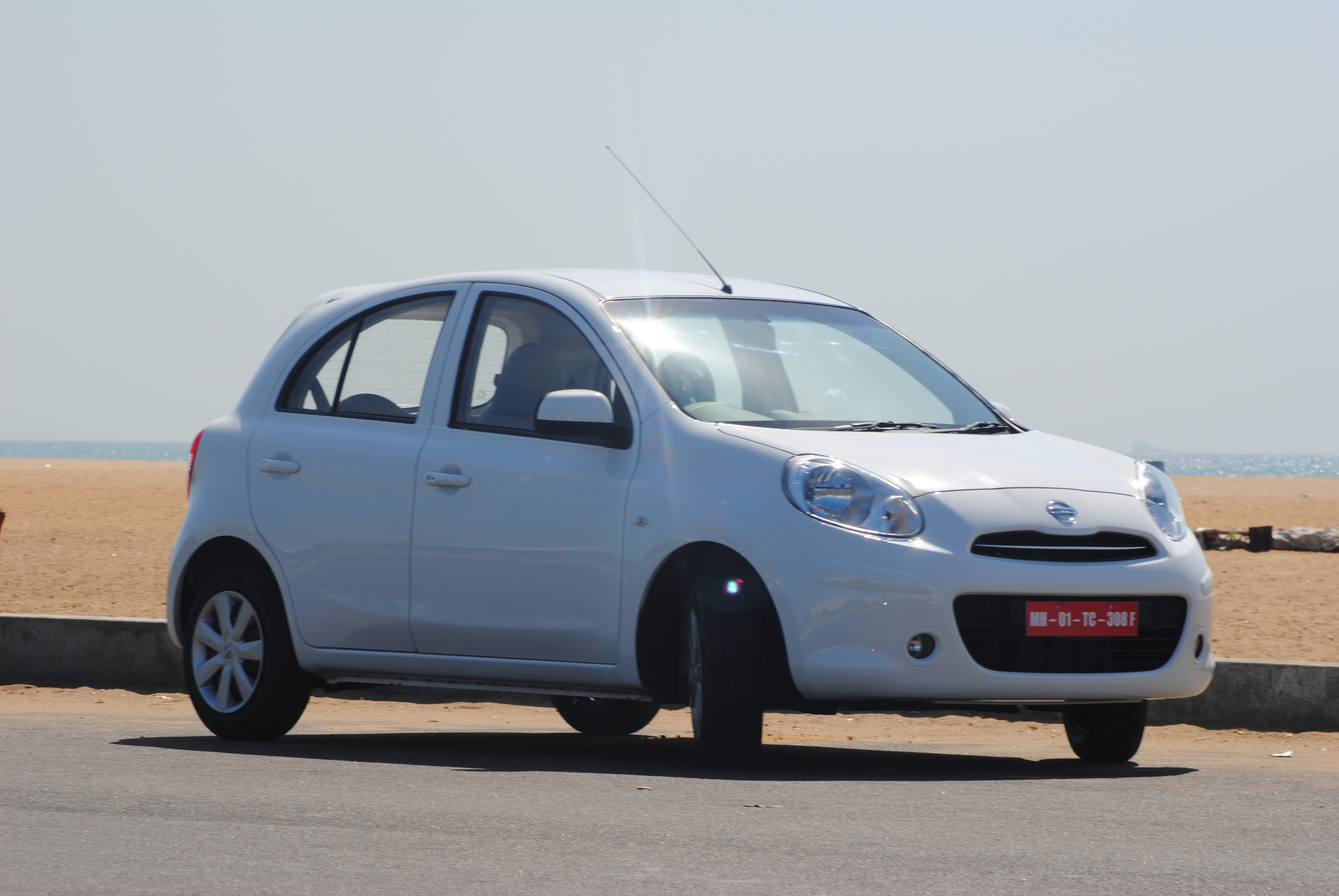 nissan micra 2010 india